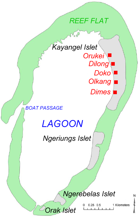 Map of Kayangel Atoll, Palau. Based on map from NOAA